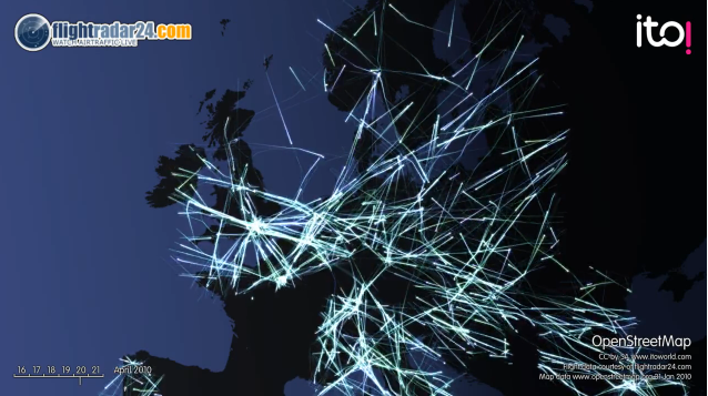 Flights returning to all of Europe following flight disruption after the Eyjafjallajökull eruption. Note the animation has no source data for parts of France and Spain and possibly other places.